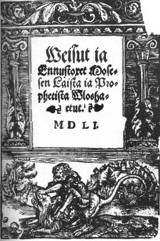 Mikael Agricola: Weisut ia Ennustoxet Mosesen Laista ia Prophetista Wloshaetut, 1551. One of the earliest books in Finnish language.